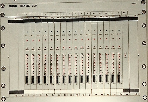 Image of a TRAME2 Router of year 1990